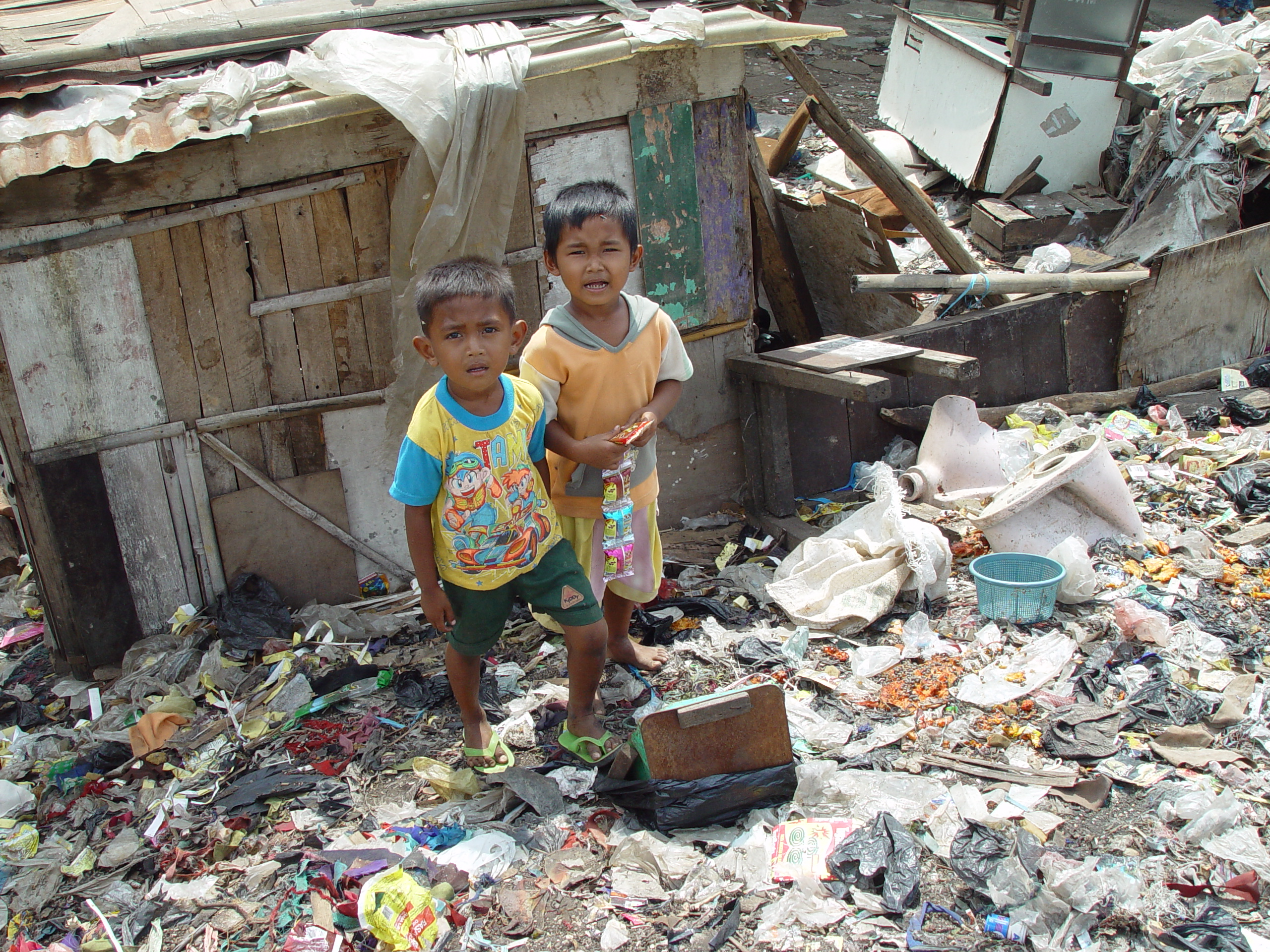 Slum life, Jakarta Indonesia.